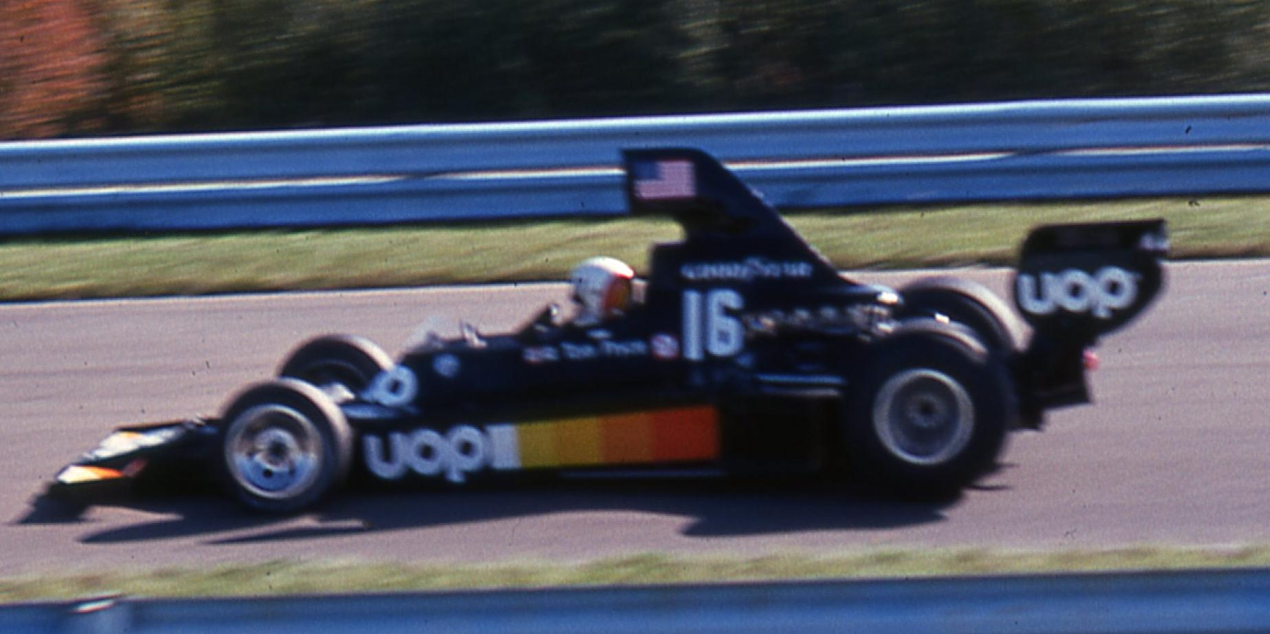 Formula 1 Grand Prix Watkins Glen 1975 16 Tom Pryce Shadow-Cosworth DN5